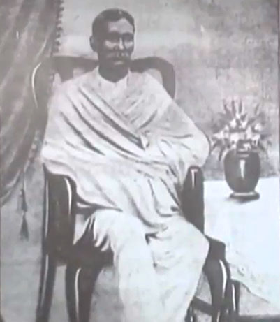 Gobindachandra Das